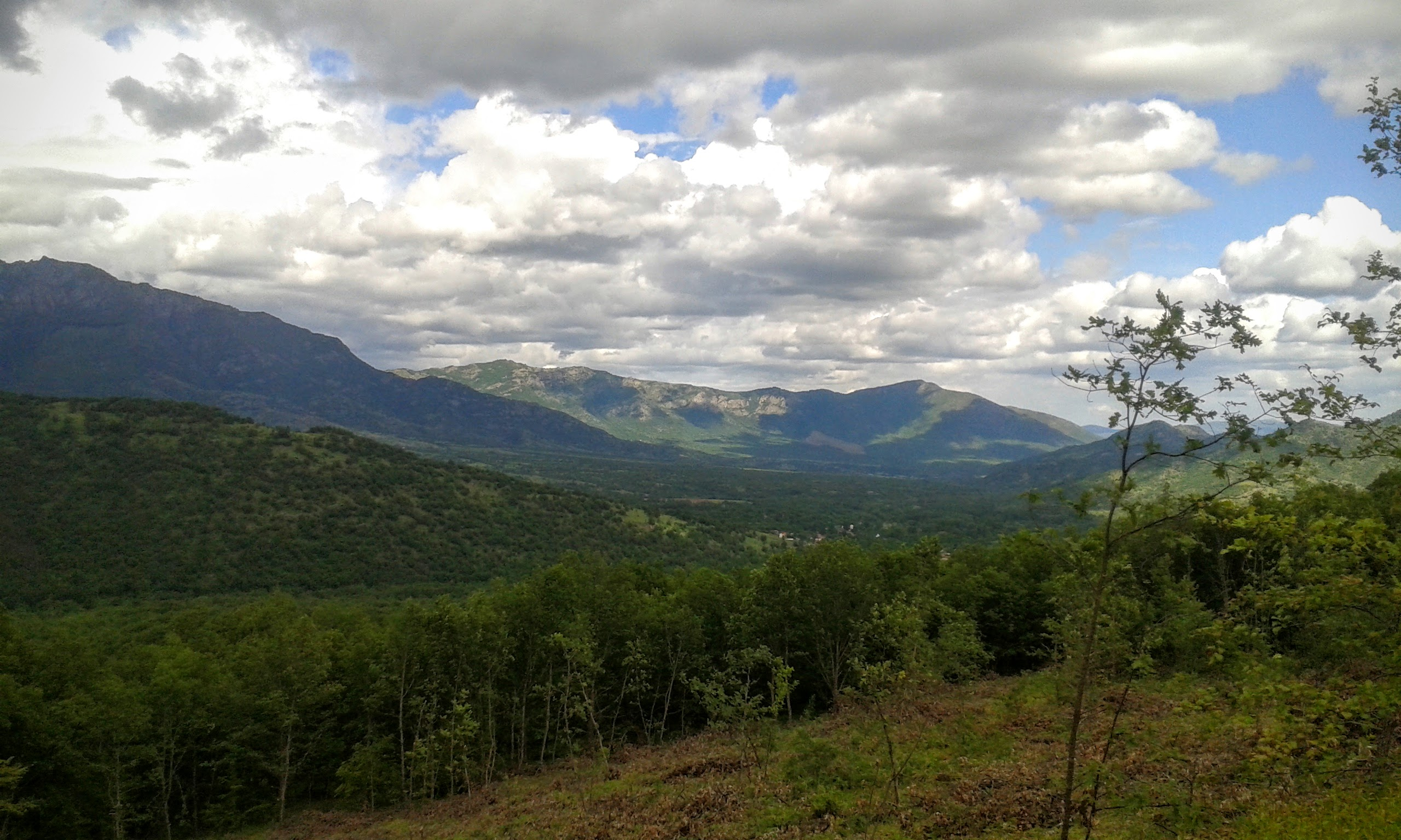 Pictures from photohunt in Azot